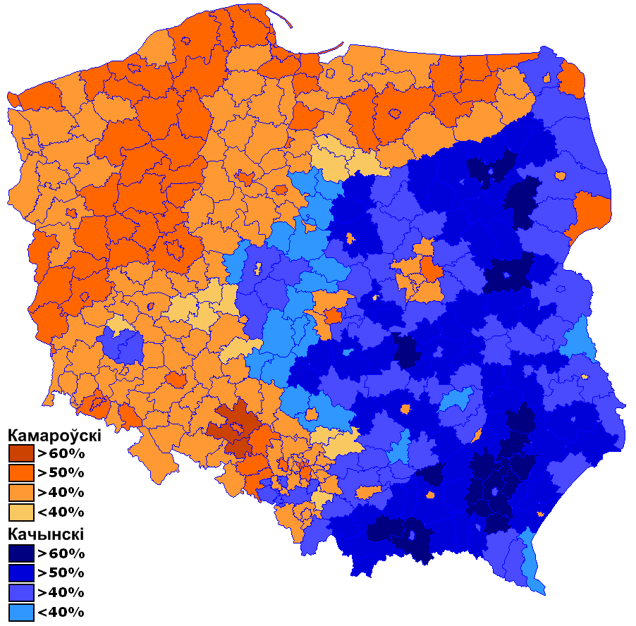 Polish presidential election, 2010 - results of the I round (20 June 2010) by counties